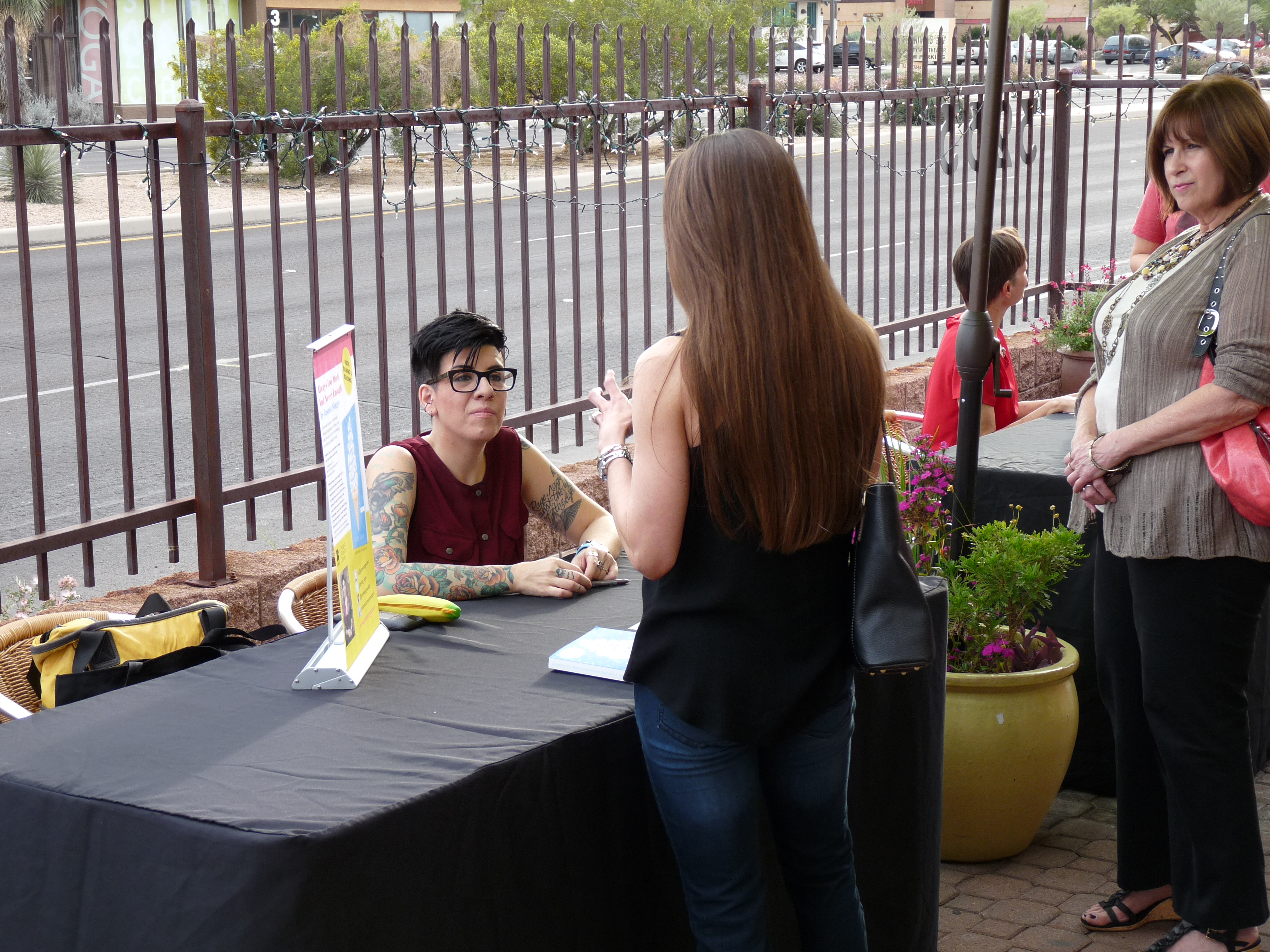 Jasmin Singer signs copies of her book, "Always Too Much and Never Enough" at the Loft Theater in Tucson, AZ.